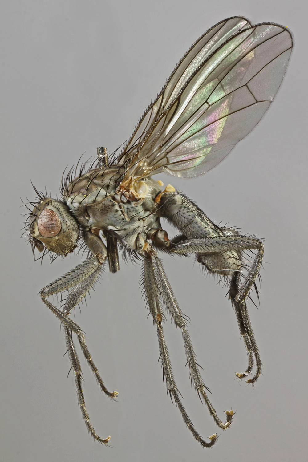 Fucellia fucorum, Dinlle beach, North Wales, 2013